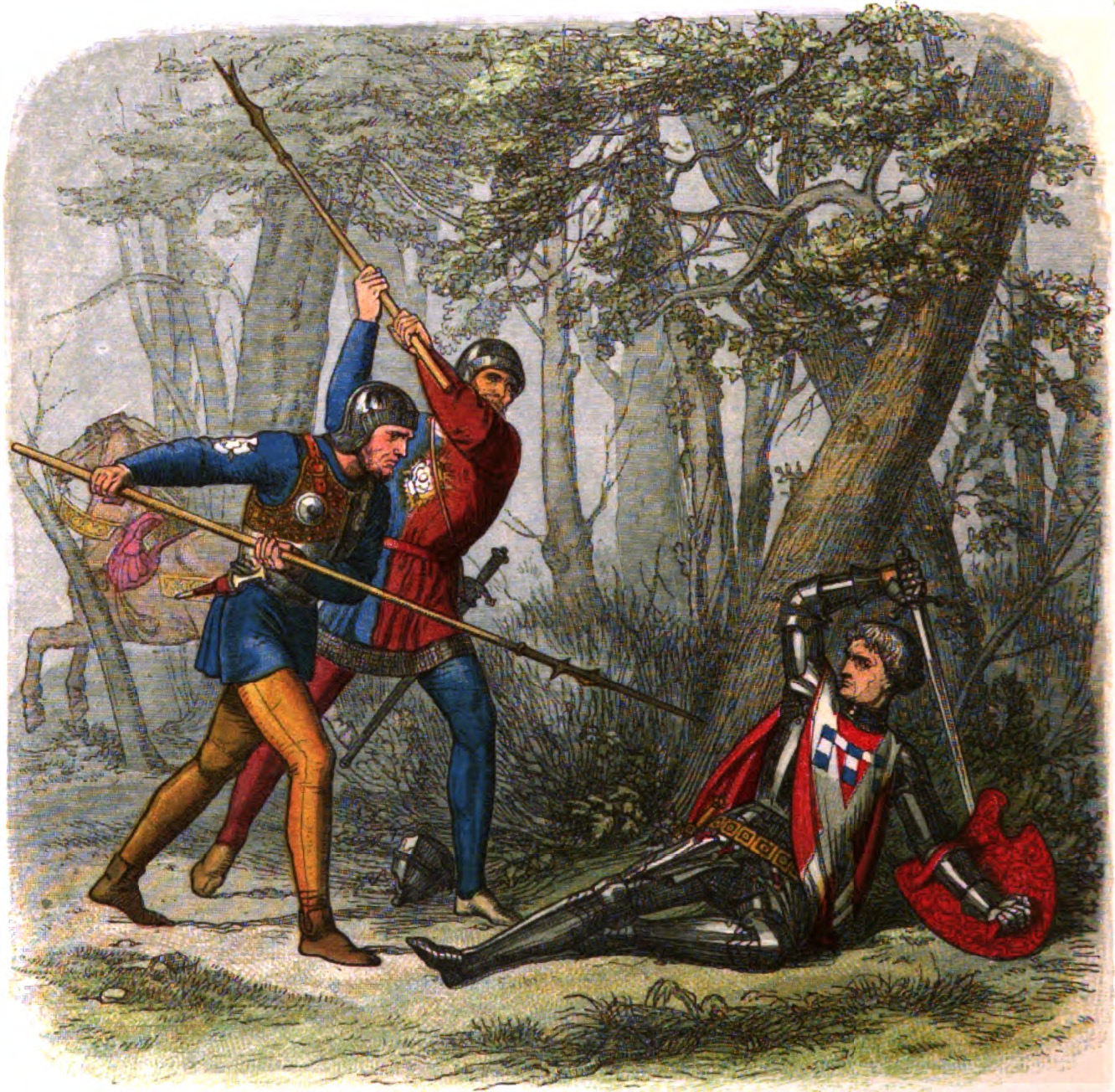 Richard Neville, 16th Earl of Warwick, is slain by the Yorkists while he was trying to flee in the Battle of Barnet.